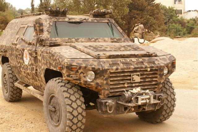 Lebanese Airborne Regiment NIMR II 4x4